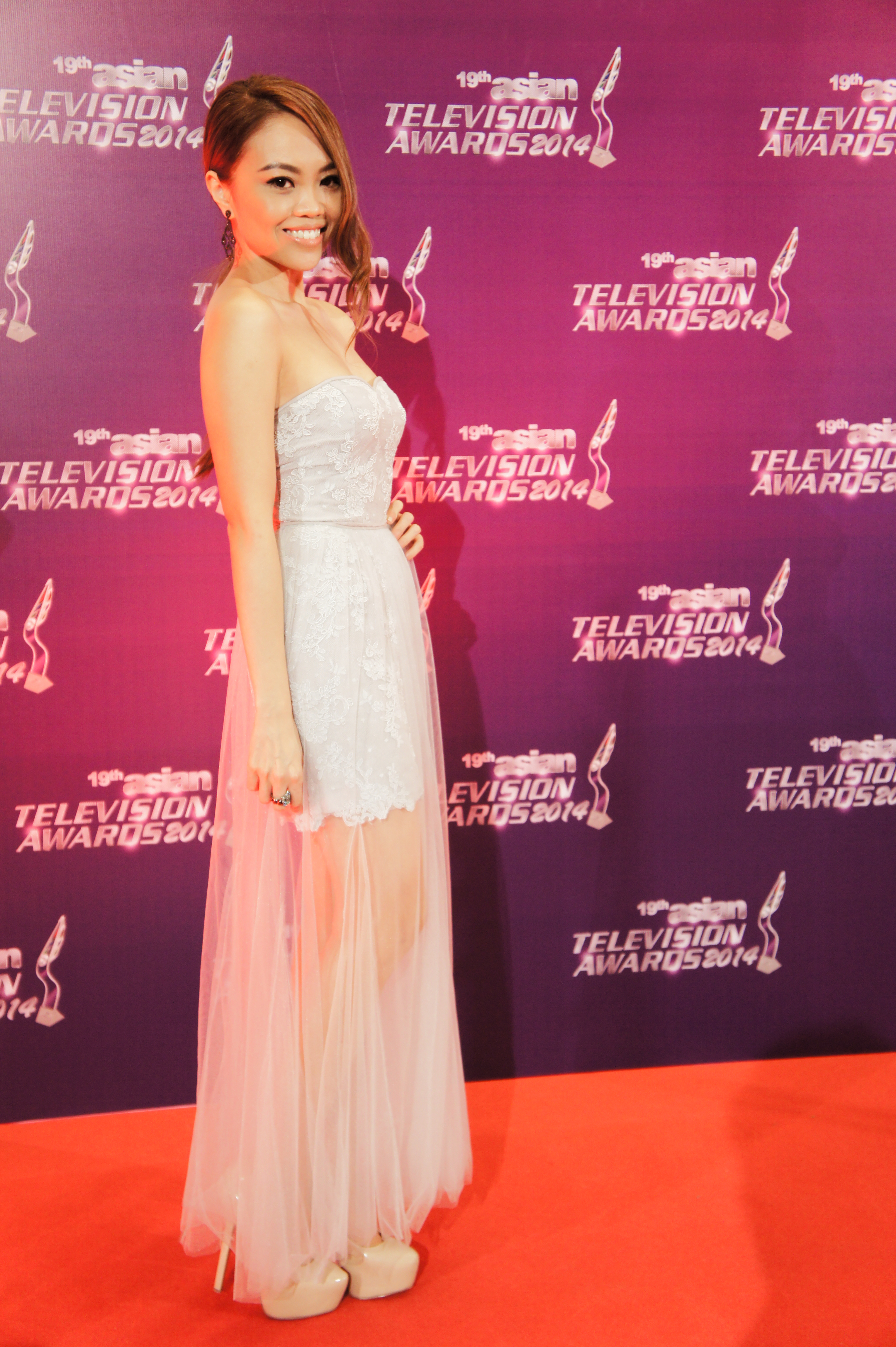 Serene Koong龚芝怡 at AsianTelevisionAwards2014